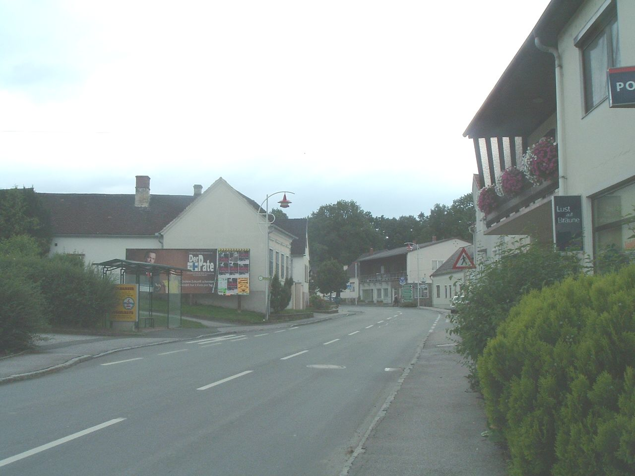 Kohfidisch, Burgenland